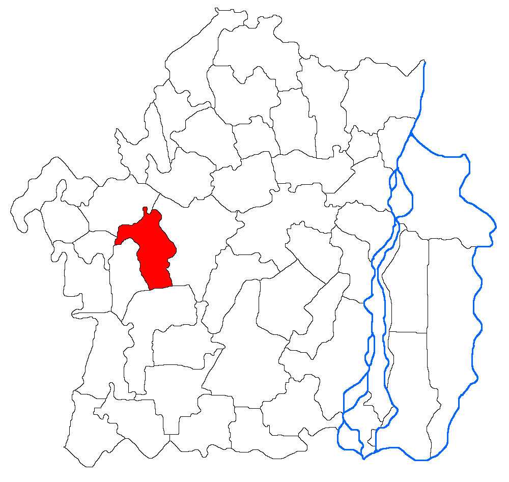 Limits of the commune of Mircea Vodă in Brăila County, Romania